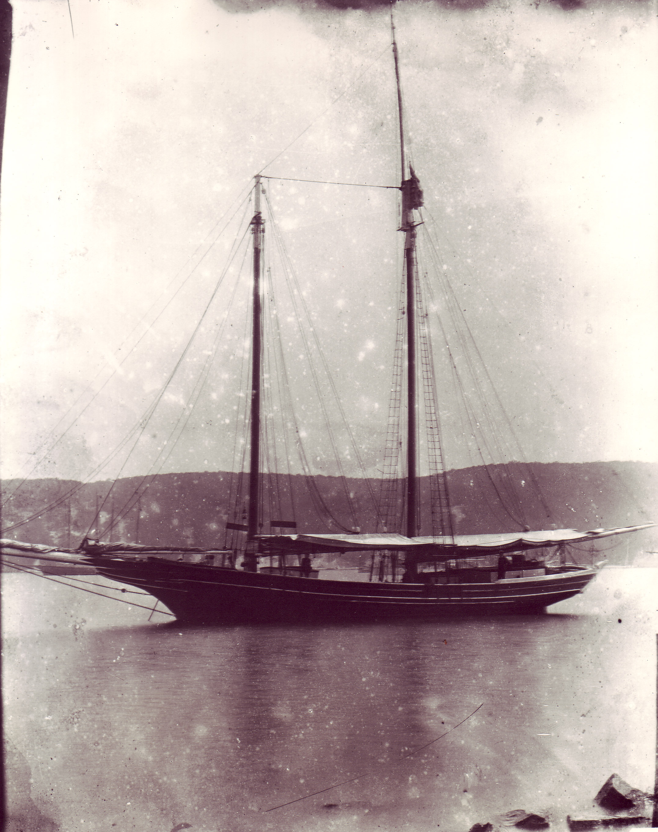 Schooner Stephen Taber at anchor in Long Island Sound, circa 1900 during a brief early career as a charter yacht